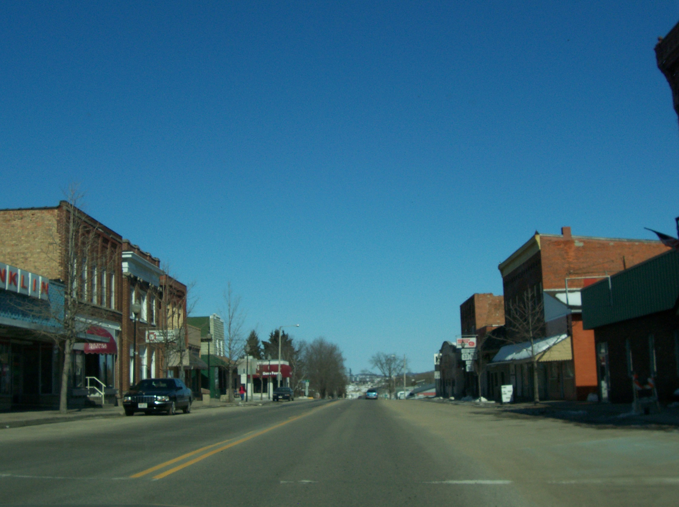 Downtown Hillsboro, Wisconsin, USA on Wisconsin Highways 33, 80, and 82.